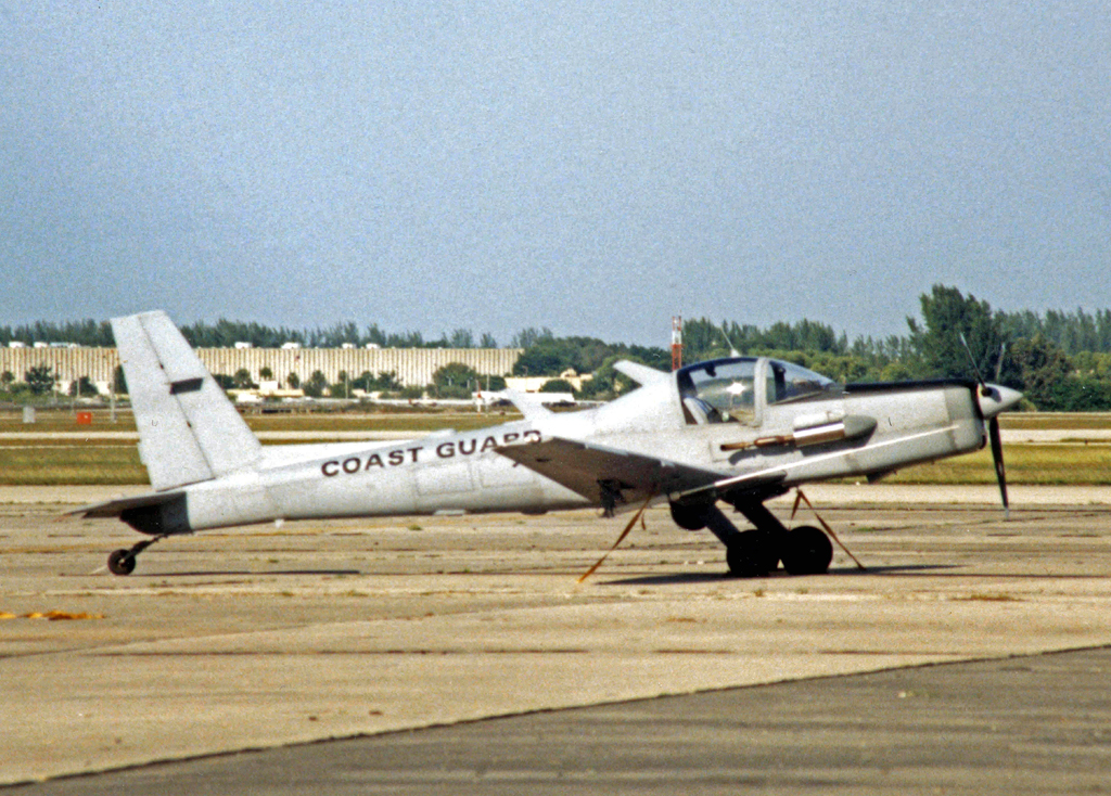 Schweizer RG-8A 85-0047 of the US Coast Guard at Opa Locka Florida in 1989